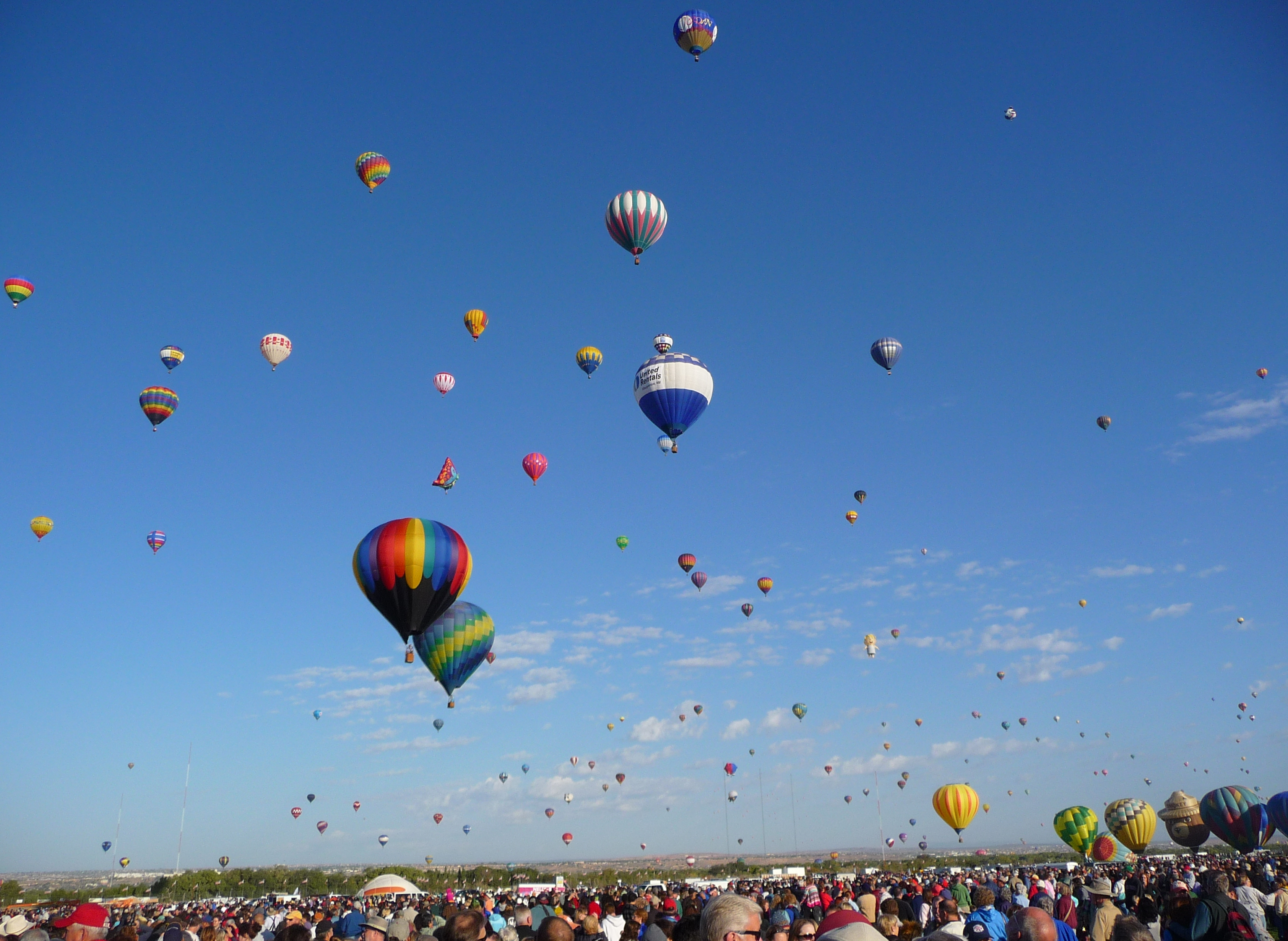 Photo of balloons, Albuquerque Balloon Fiesta, 2011.